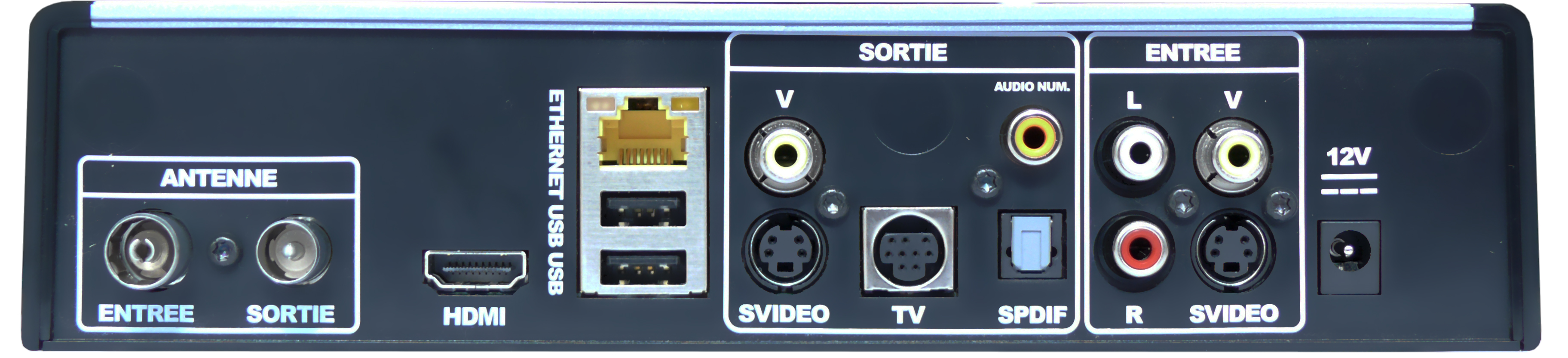 Freebox V5 rear Face and connectors